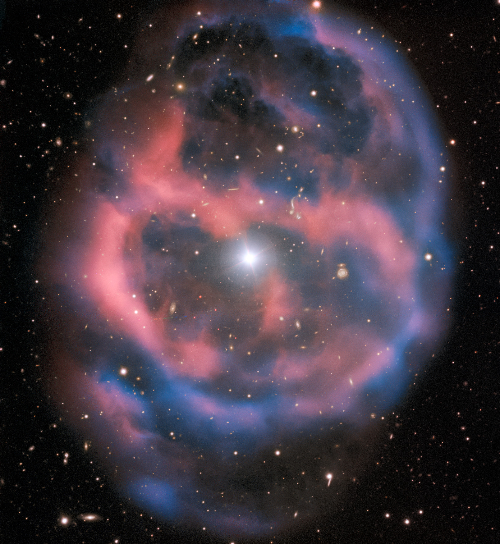 The faint, ephemeral glow emanating from the planetary nebula ESO 577-24 persists for only a short time — around 10,000 years, a blink of an eye in astronomical terms. ESO’s Very Large Telescope captured this shell of glowing ionised gas — the last breath of the dying star whose simmering remains are visible at the heart of this image. As the gaseous shell of this planetary nebula expands and grows dimmer, it will slowly disappear from sight. This stunning planetary nebula was imaged by one of the VLT’s most versatile instruments, FORS2. The instrument captured the bright, central star, Abell 36, as well as the surrounding planetary nebula. The red and blue portions of this image correspond to optical emission at red and blue wavelengths, respectively. An object much closer to home is also visible in this image — an asteroid wandering across the field of view has left a faint track below and to the left of the central star. And in the far distance behind the nebula a glittering host of background galaxies can be seen.